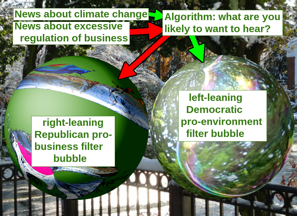 Technologies such as social media can shunt information to different users -- guessing what they want to hear -- by personalizing the incoming information. Over time, communities of like-minded people form, oblivious to contrasting points of view. The 'filter bubble' concept was developed and popularized by activist Eli Pariser.